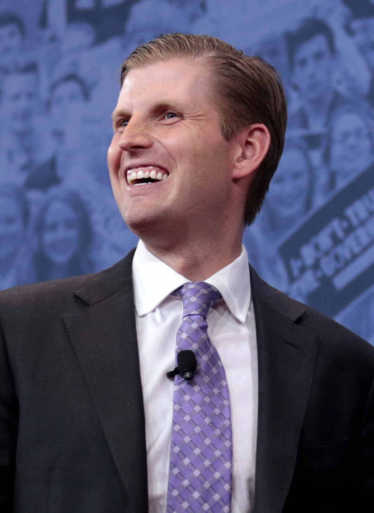 Eric Trump speaking at the 2018 CPAC in National Harbor, Maryland.